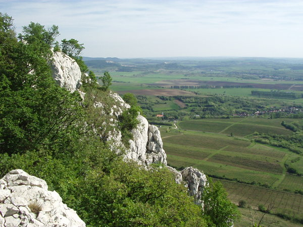 The vonderful Mountain Pilis in Dorog